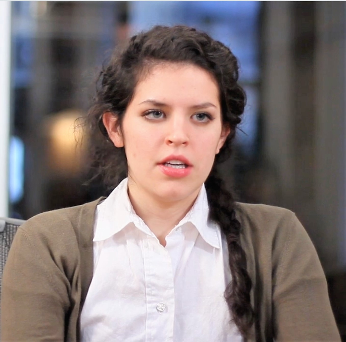 Uptown Girl presents: "A Totally Unreasonable Will" Starring: Emily Axford, Morgan Evans, Corinne Fisher, Jason Donovan Hall, Frank Hejl, Violet Krumbein and Brent Rose. Written and directed by: Isaac Leicht Edited by: Tom Colella Produced by: Isaac Leicht, Benjy Susswein, Erik Parker and Tom Colella. Shot by: Michael Gambino, Abhinav Bhat and Tom Colella.